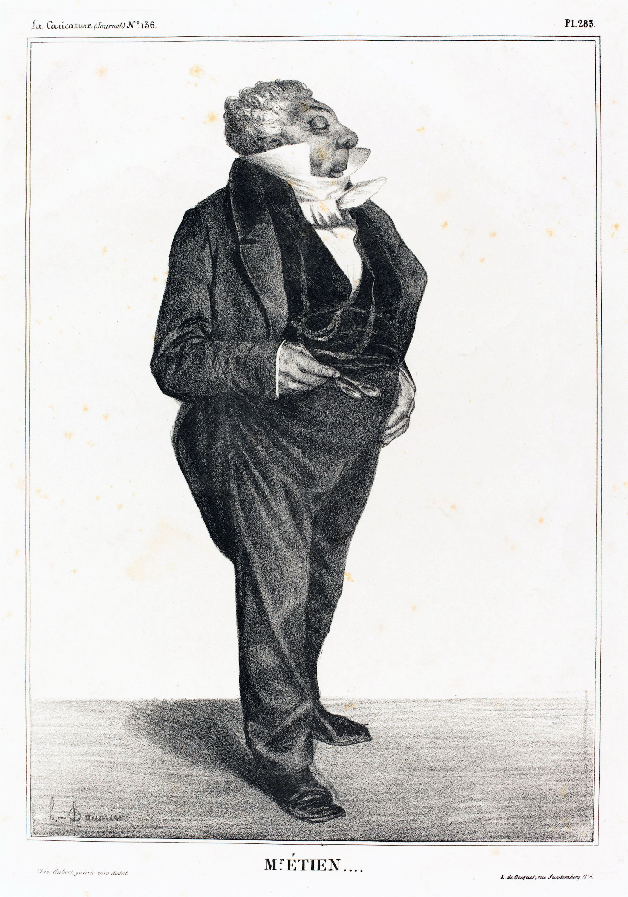 Caricature of Charles-Guillaume Étienne published in La Caricature. National Gallery of Art, Rosenwald Collection, 1943.3.2926